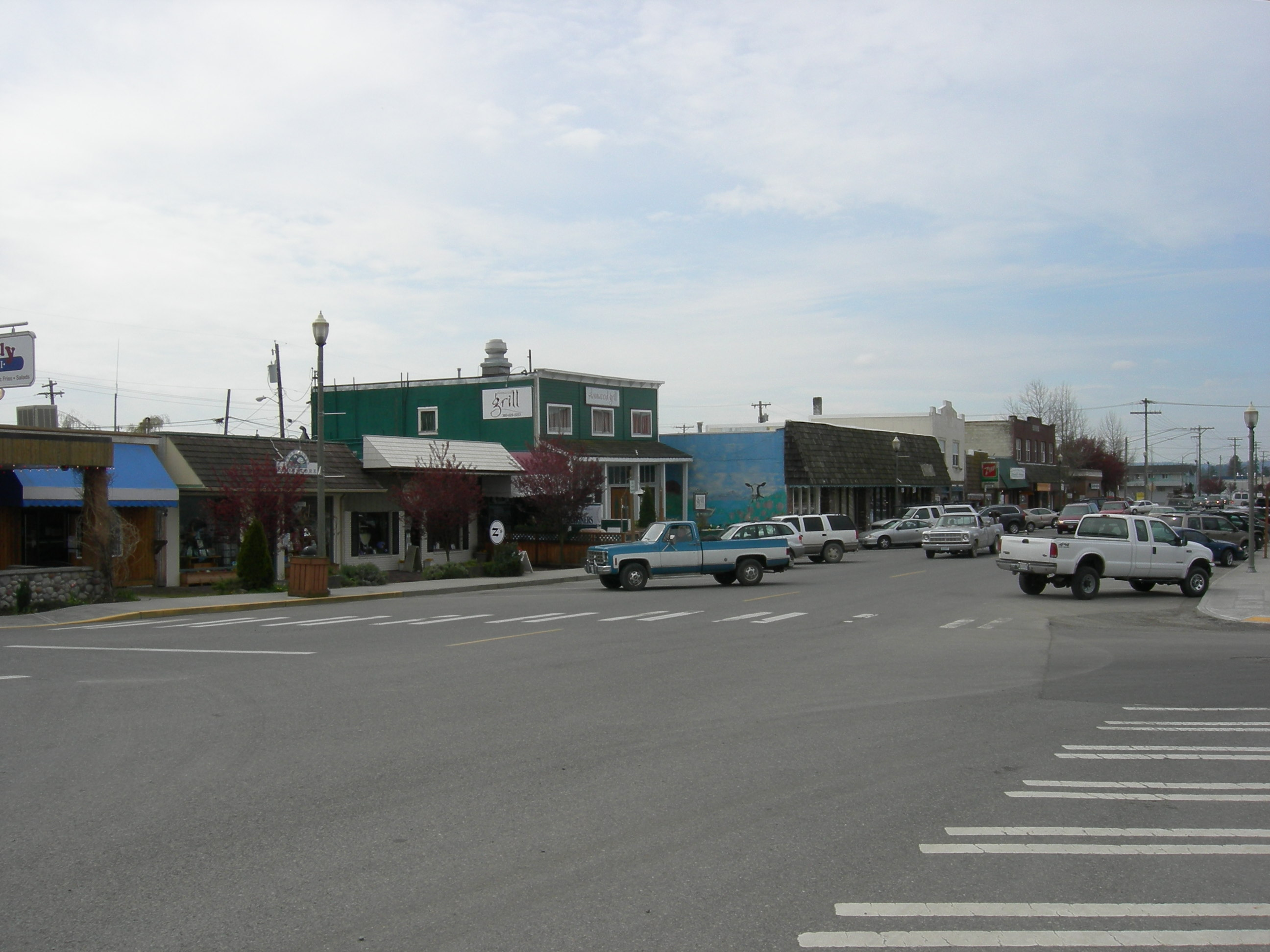 Main Street, Stanwood, Washington. (Looking basically west at the south side of the street.)